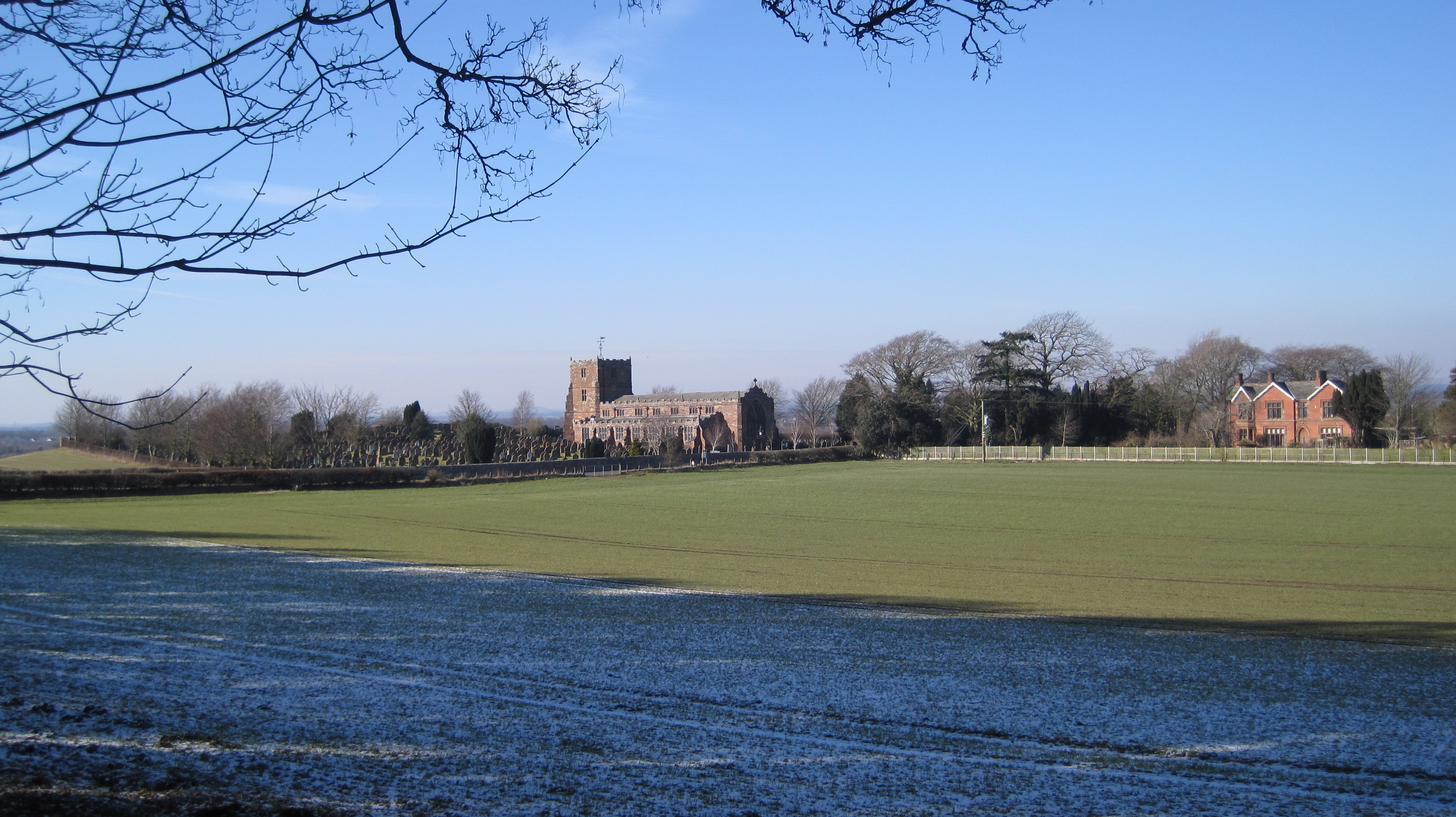 Arthuret church from Woodland Edge Arthuret church on a beautiful early Spring day. The picture is taken from a small Woodland Hill to the southeast, the site of a battle.